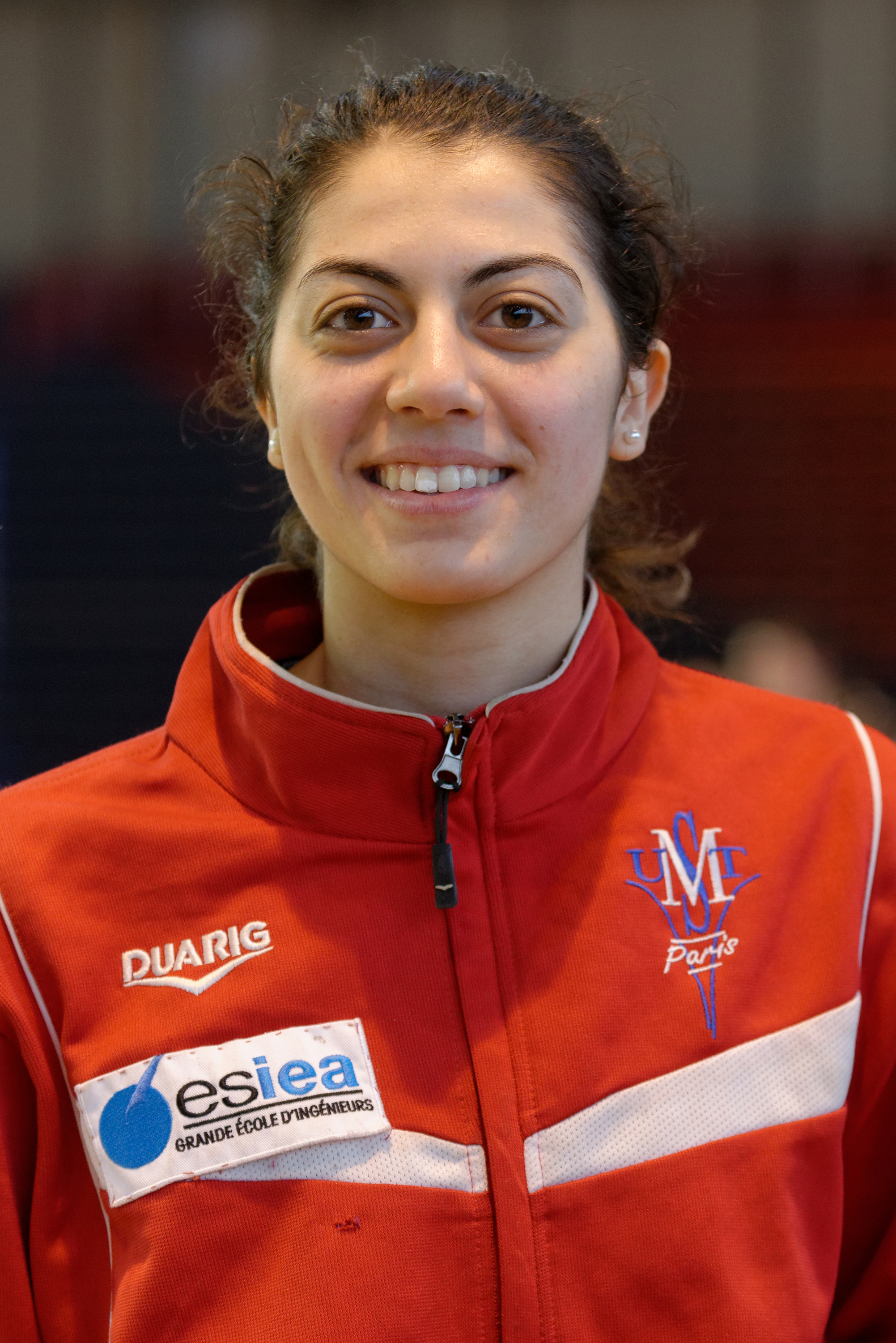 Sabre fencer Azza Besbes at the Tournoi International Paris Île-de-France 2013.